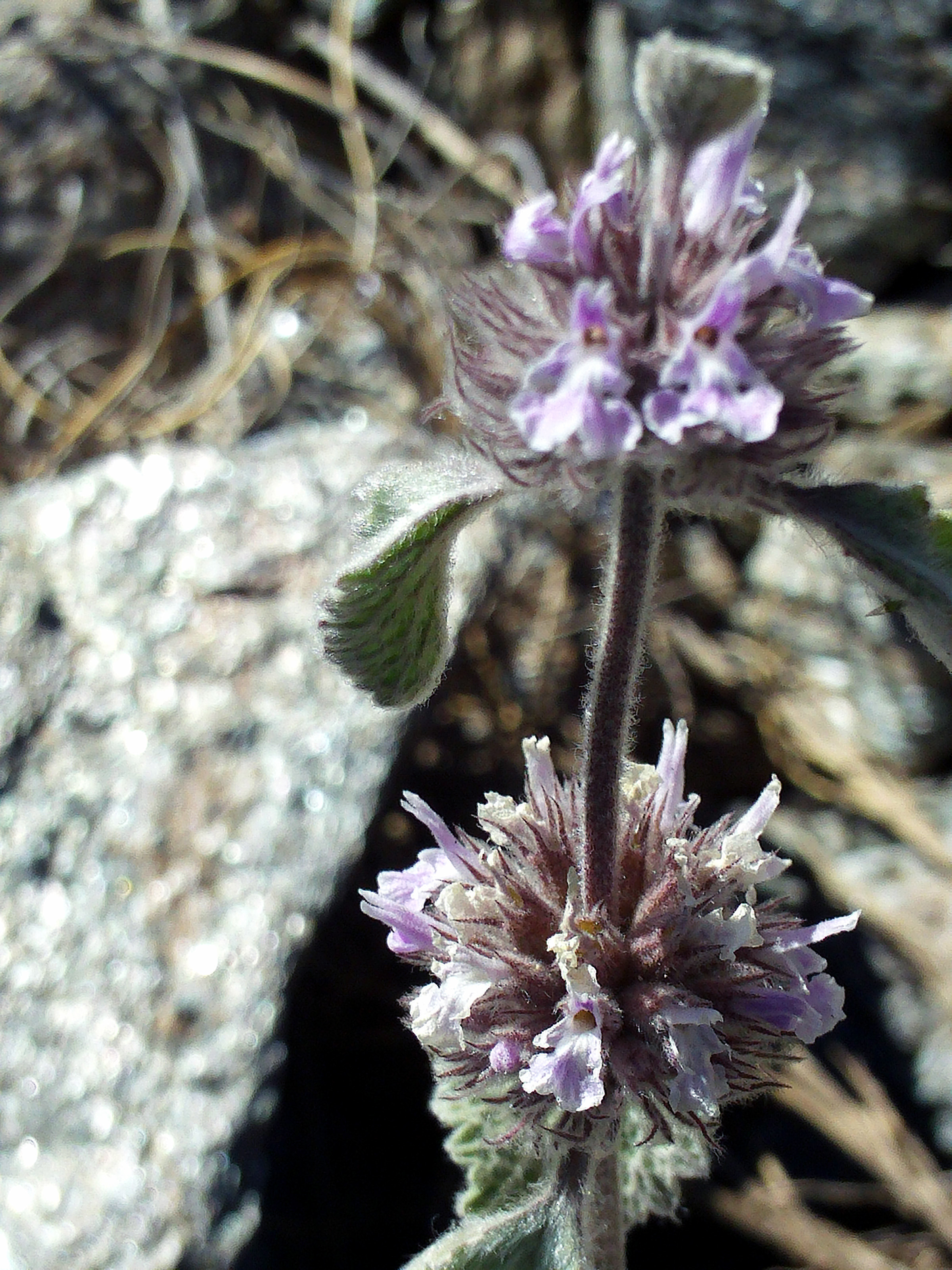 Marrubium supinum flowers close up, Sierra Nevada, Spain